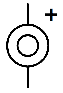 own work Summary own work